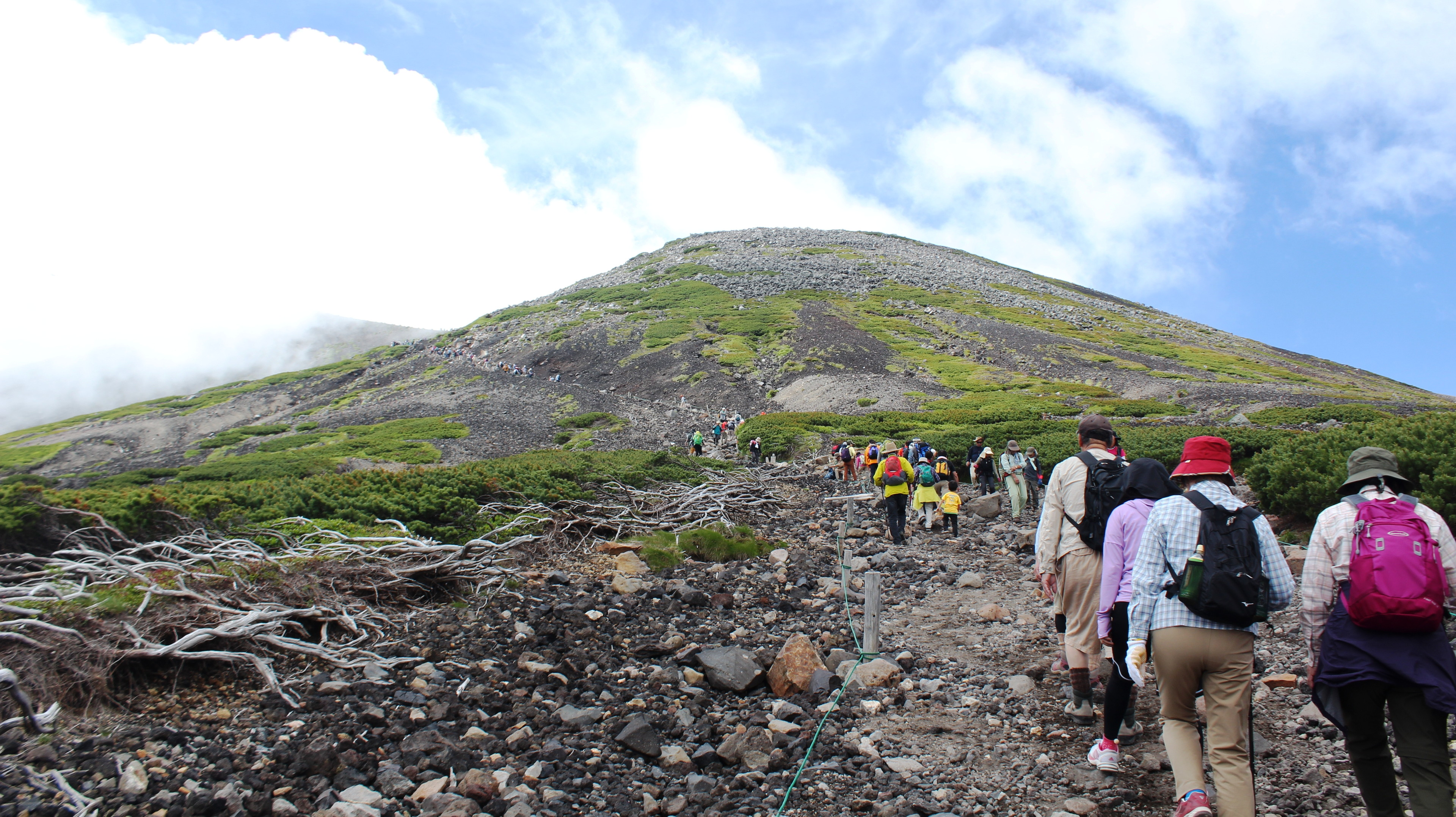 Hiking for Mount Norikura, in Nagano pref. and Gifu pref., Japan.